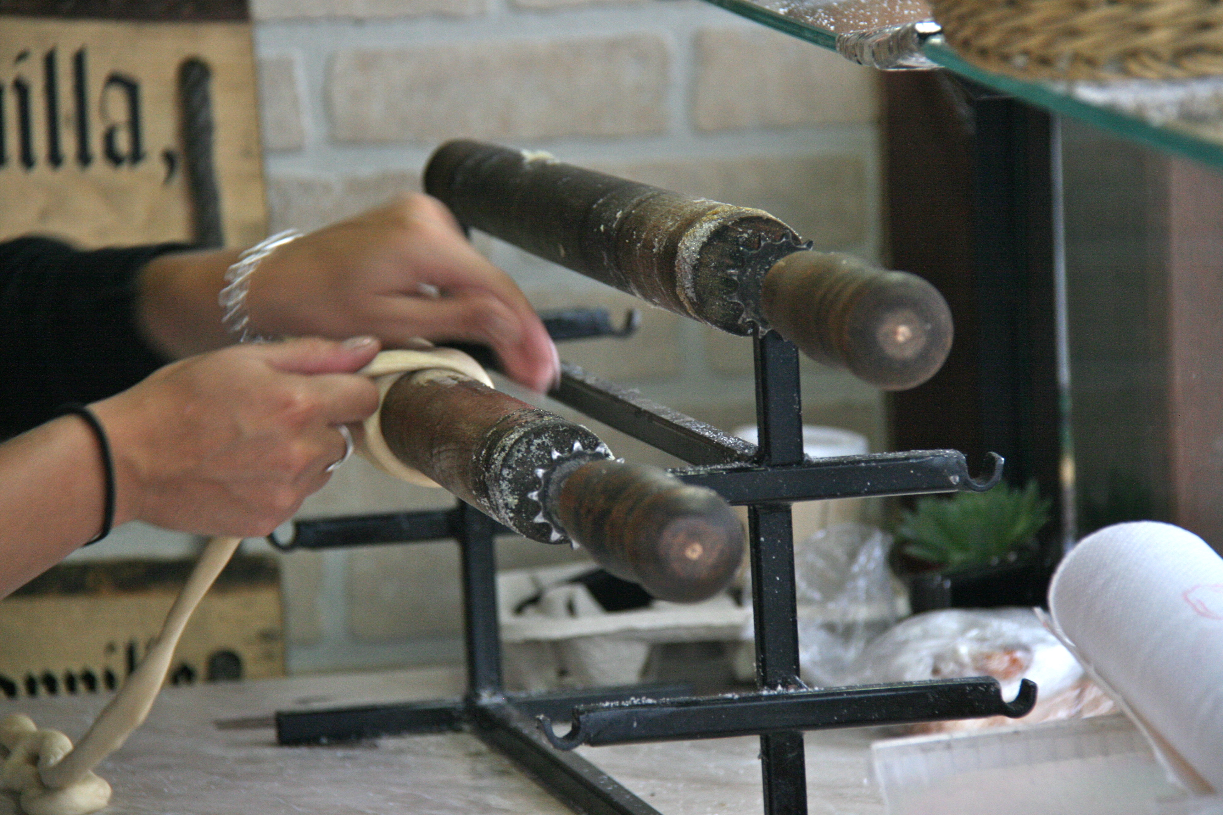 Trdelník spinning trdlo